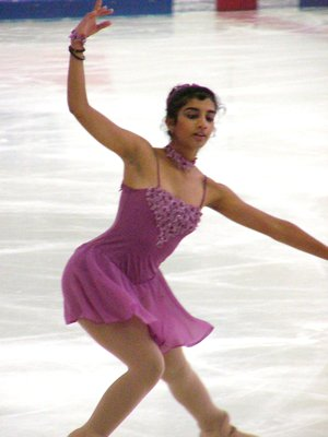 Aadnya Borkar during her free skate at the 2004 Junior Grand Prix event in Germany